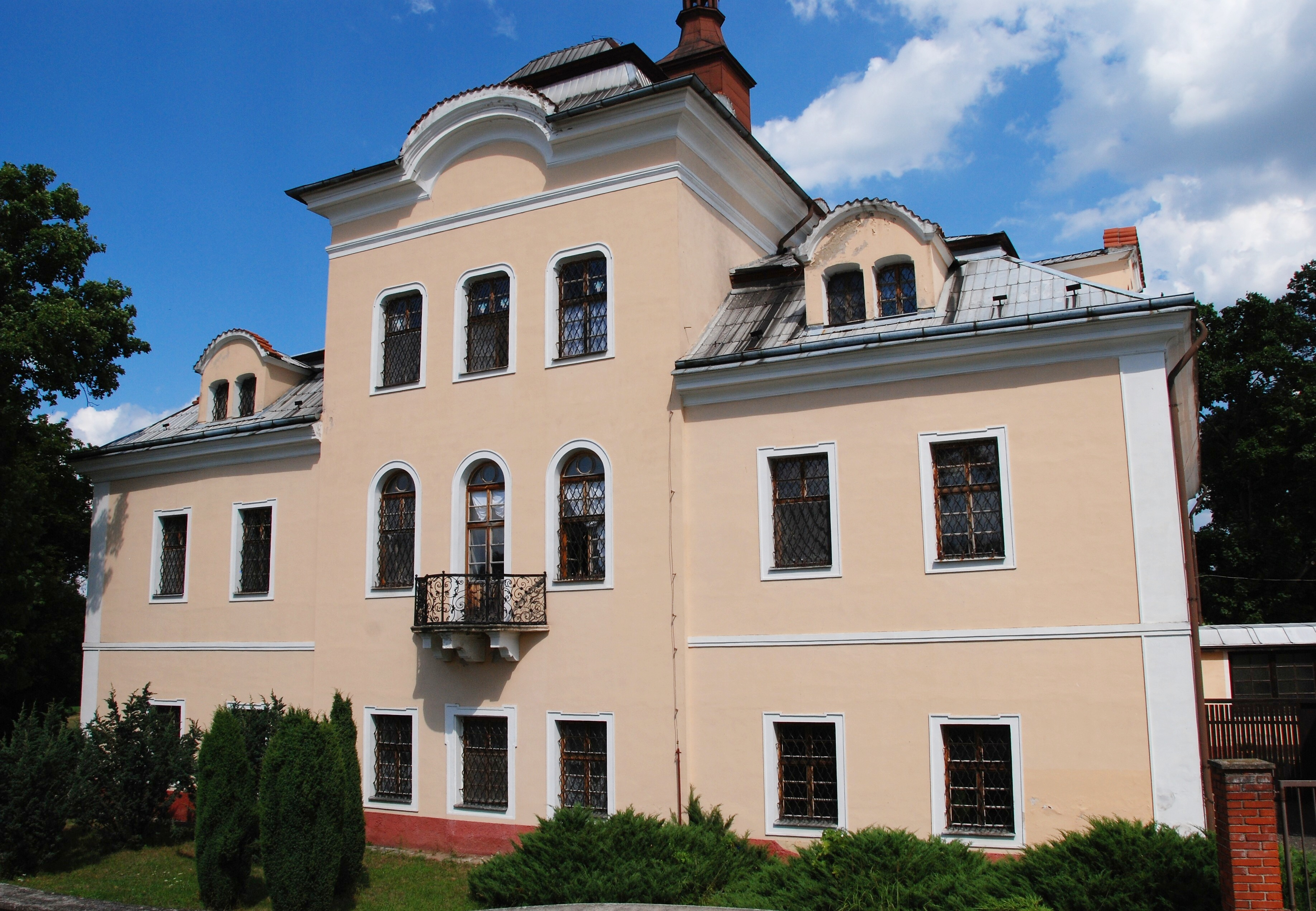 Nalžovice Castle, Příbram District